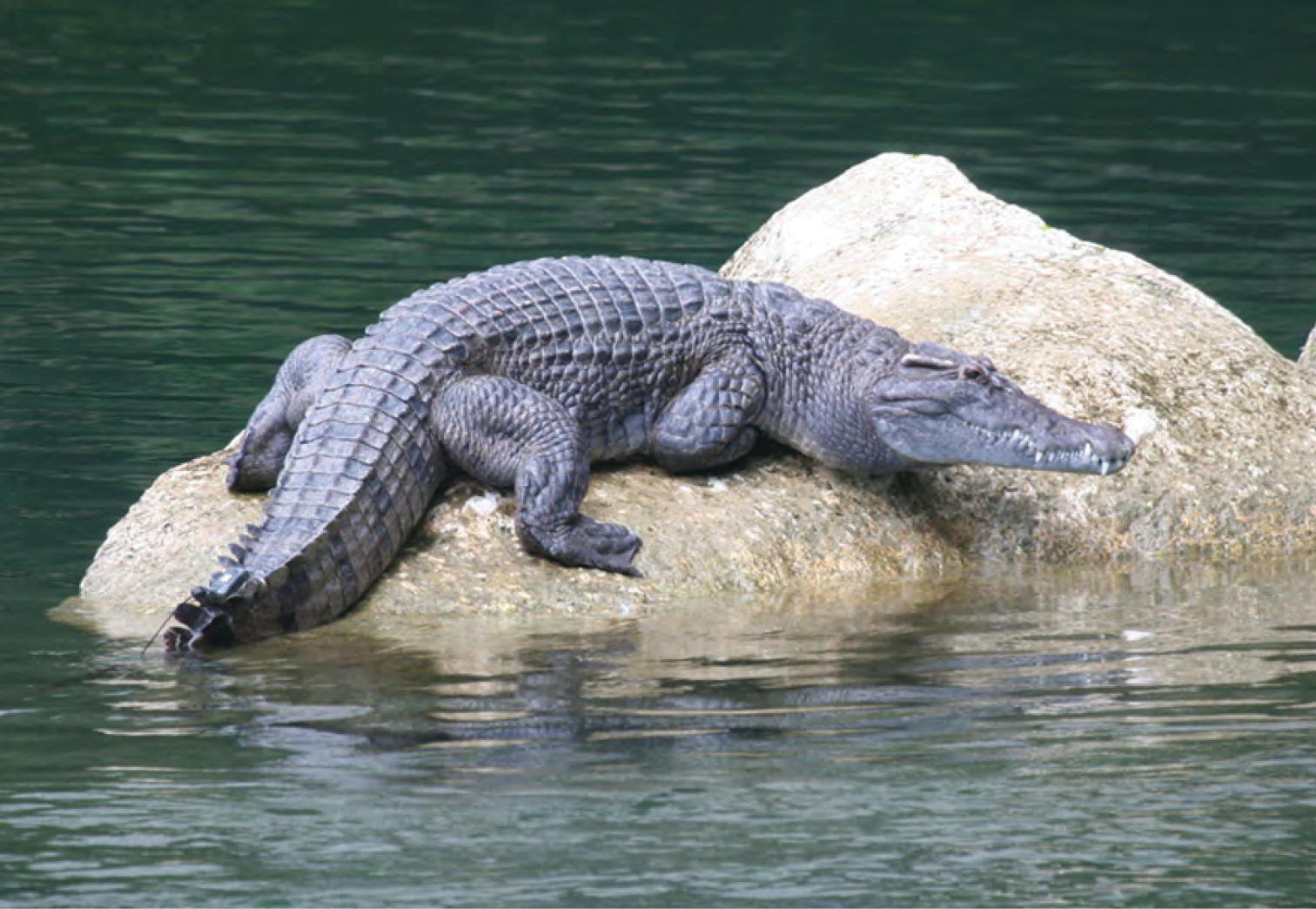 Crocodylus mindorensis basking on a rock in the Disulap River, Barangay Disulap. Photo MVW.